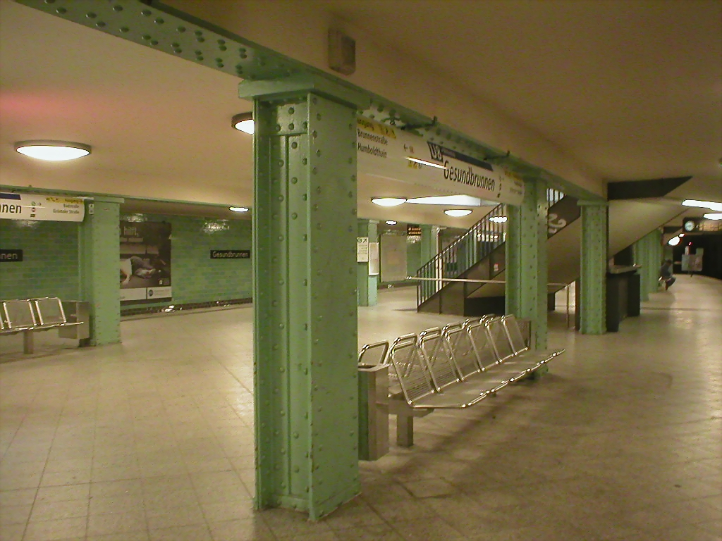 Berlin's undergroudn station Gesundbrunnen, line U8